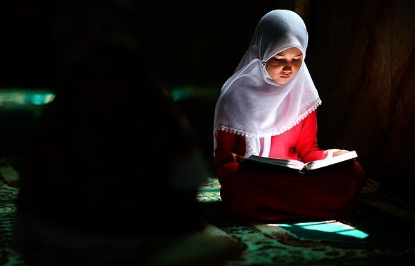 Ramadan Quran Reading by Juz' in Bandar Torkaman. see full gallery